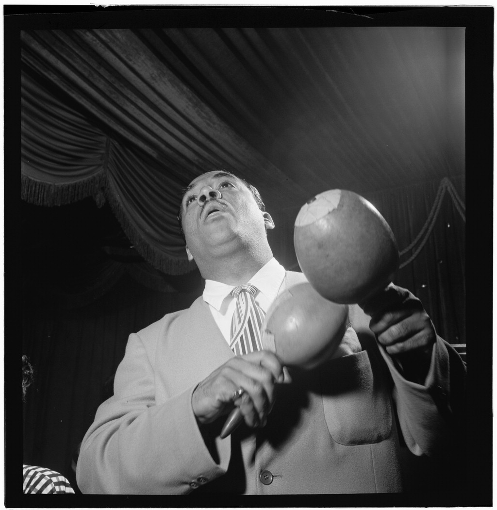 Machito, Glen Island Casino, New York, N.Y., ca. July 1947 (Photograph by William P. Gottlieb